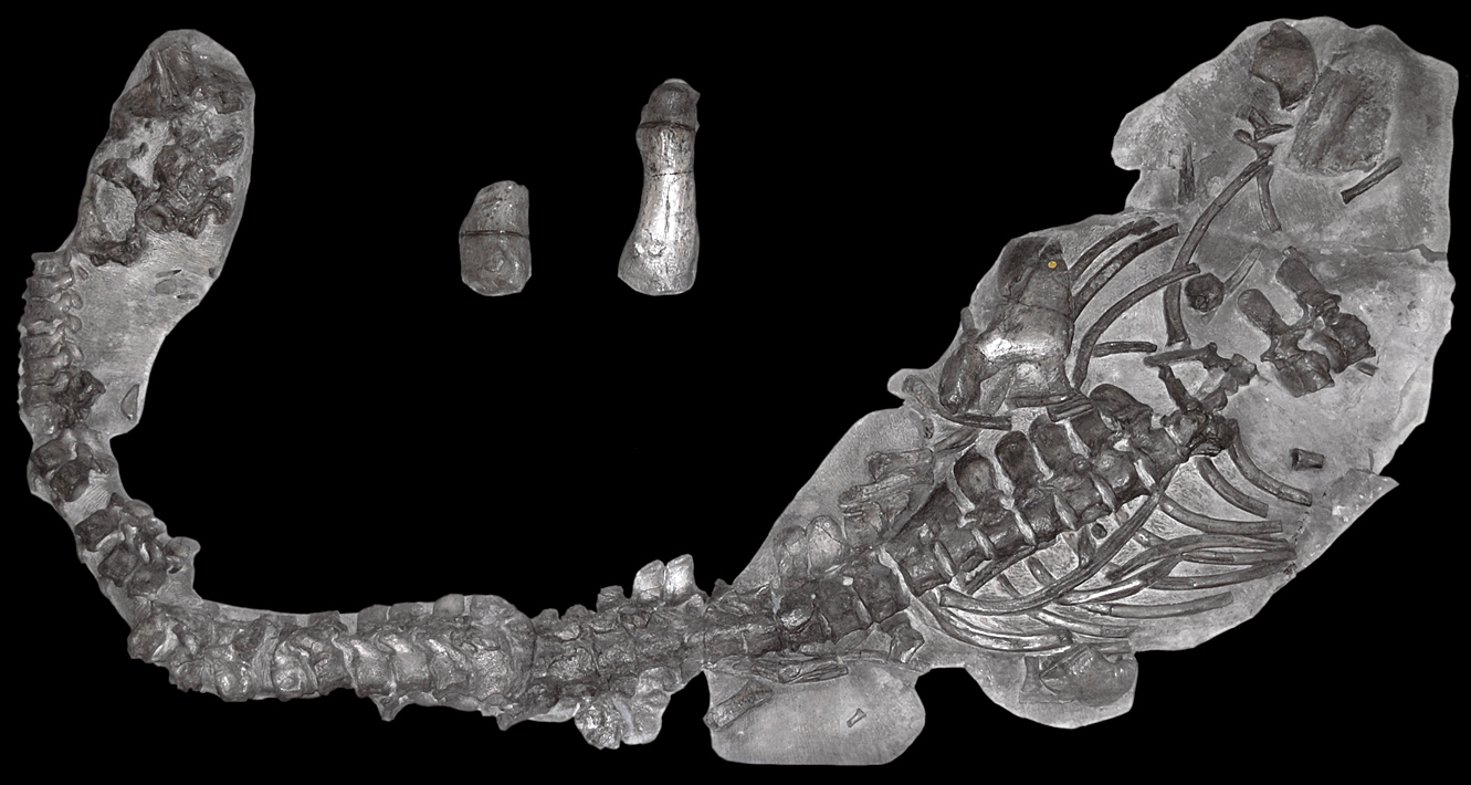 Archaeonectrus rostratus lower jurassic lyme regis